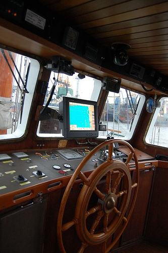 Steering wheel of Klaipeda university training ship "Brabander"